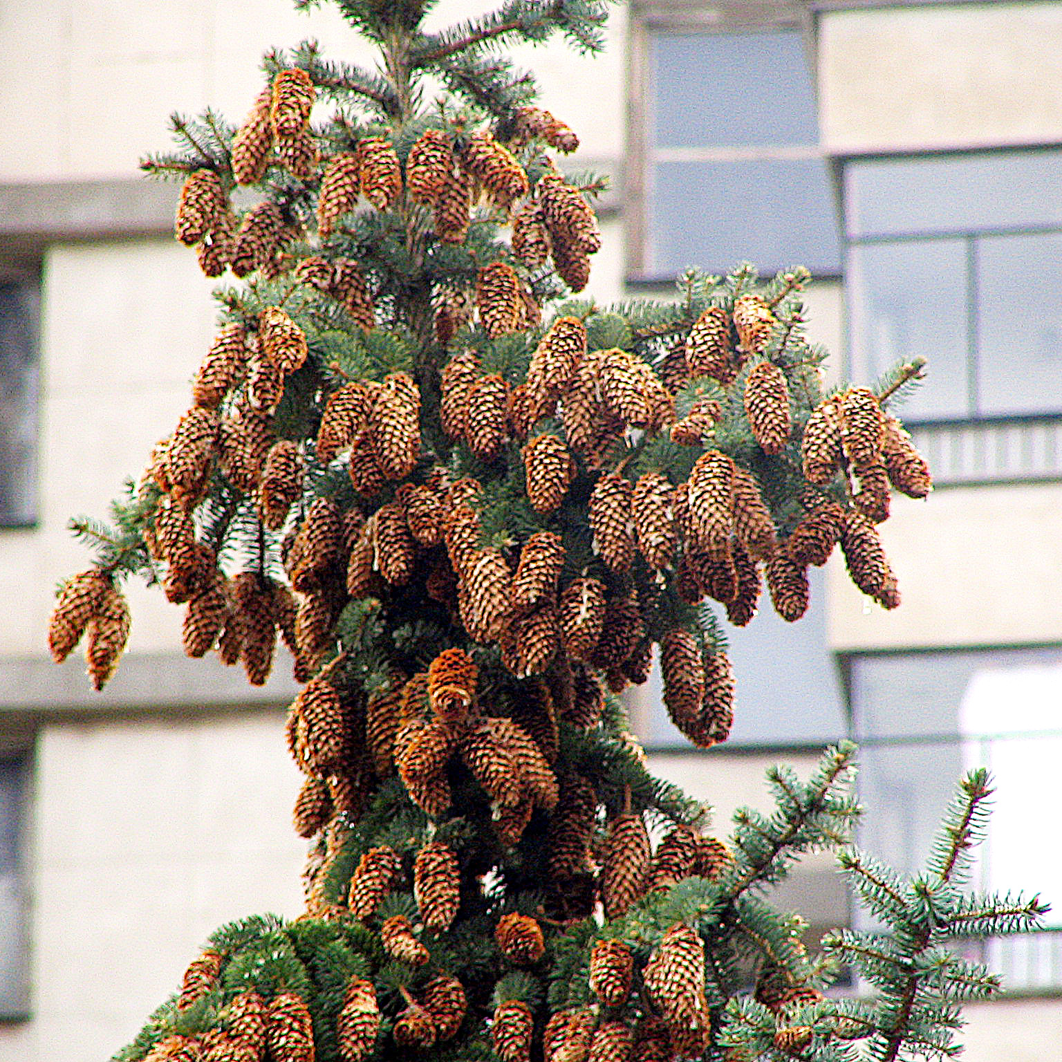 Picea pungens cones in Sofia (Bulgaria)